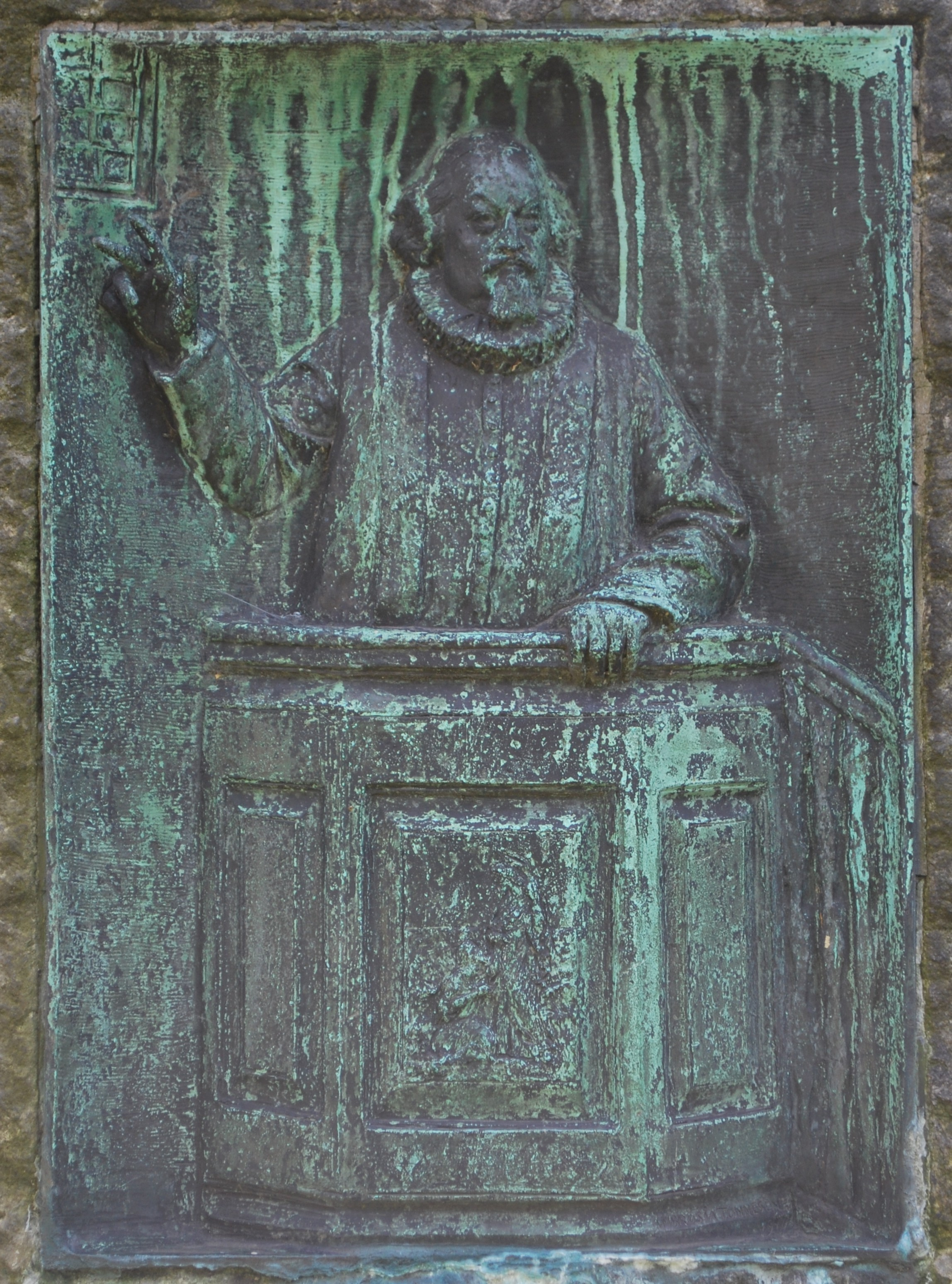 Petter Dass, Norwegian poet and hymn writer. Relief by Ambrosia Tønnesen on monument by Bergen Cathedral, Bergen, Norway.